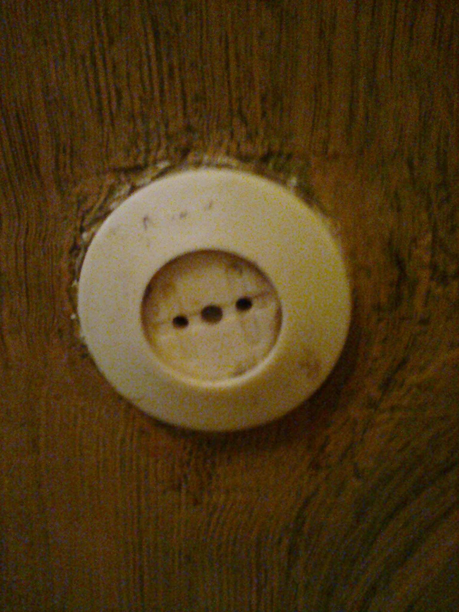 Soviet electric socket seen in Museum of Genocide Victims Vilnius